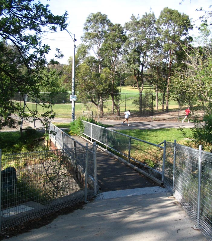 Solway St Foot Bridge which joins the Malvern Valley Public Golf Course and Gardiners Creek Trail to the Anniversary Outer Circle Trail and Solway St